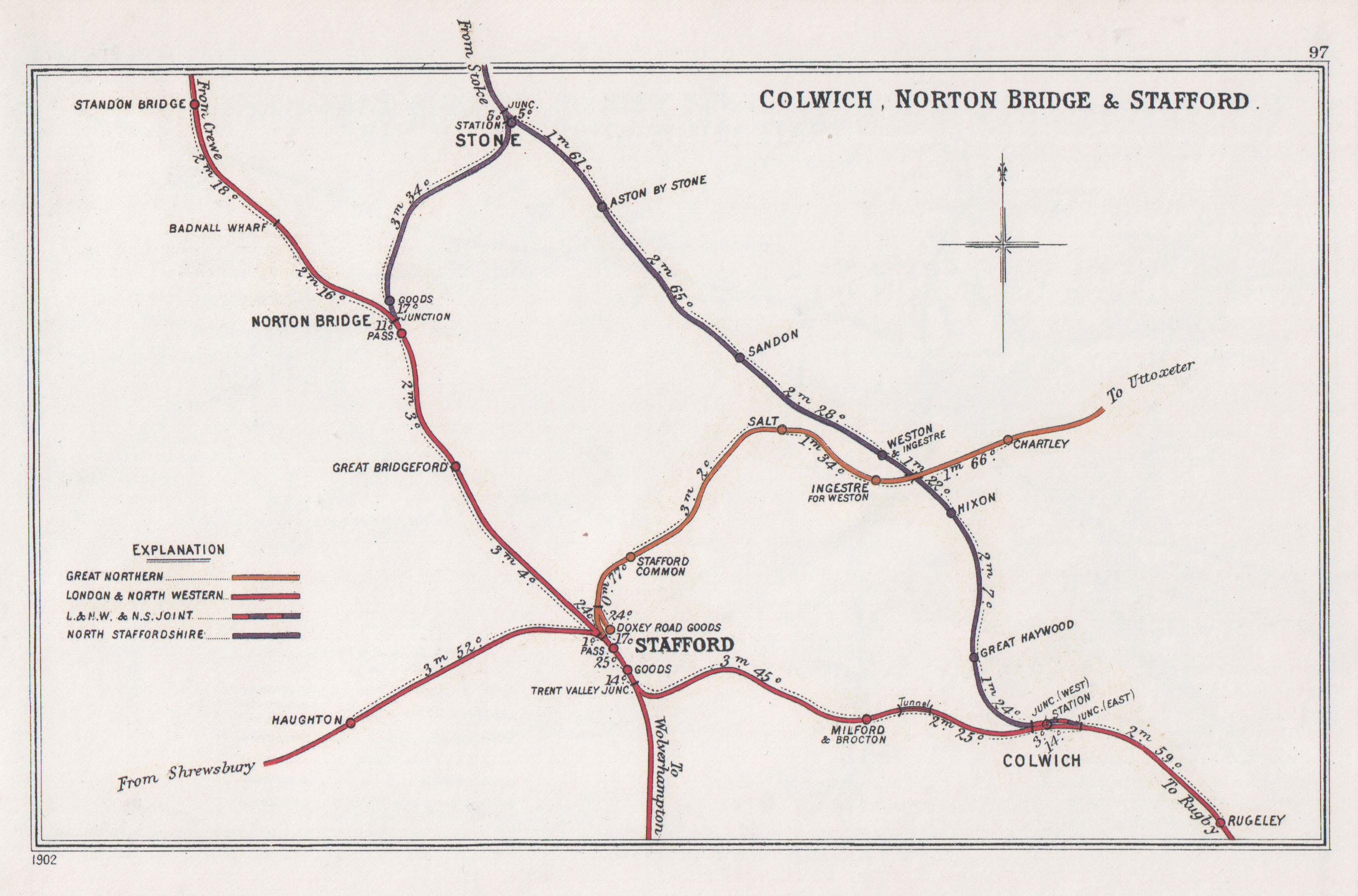 Railway Junctions in Colwich, Norton Bridge & Stafford pre grouping